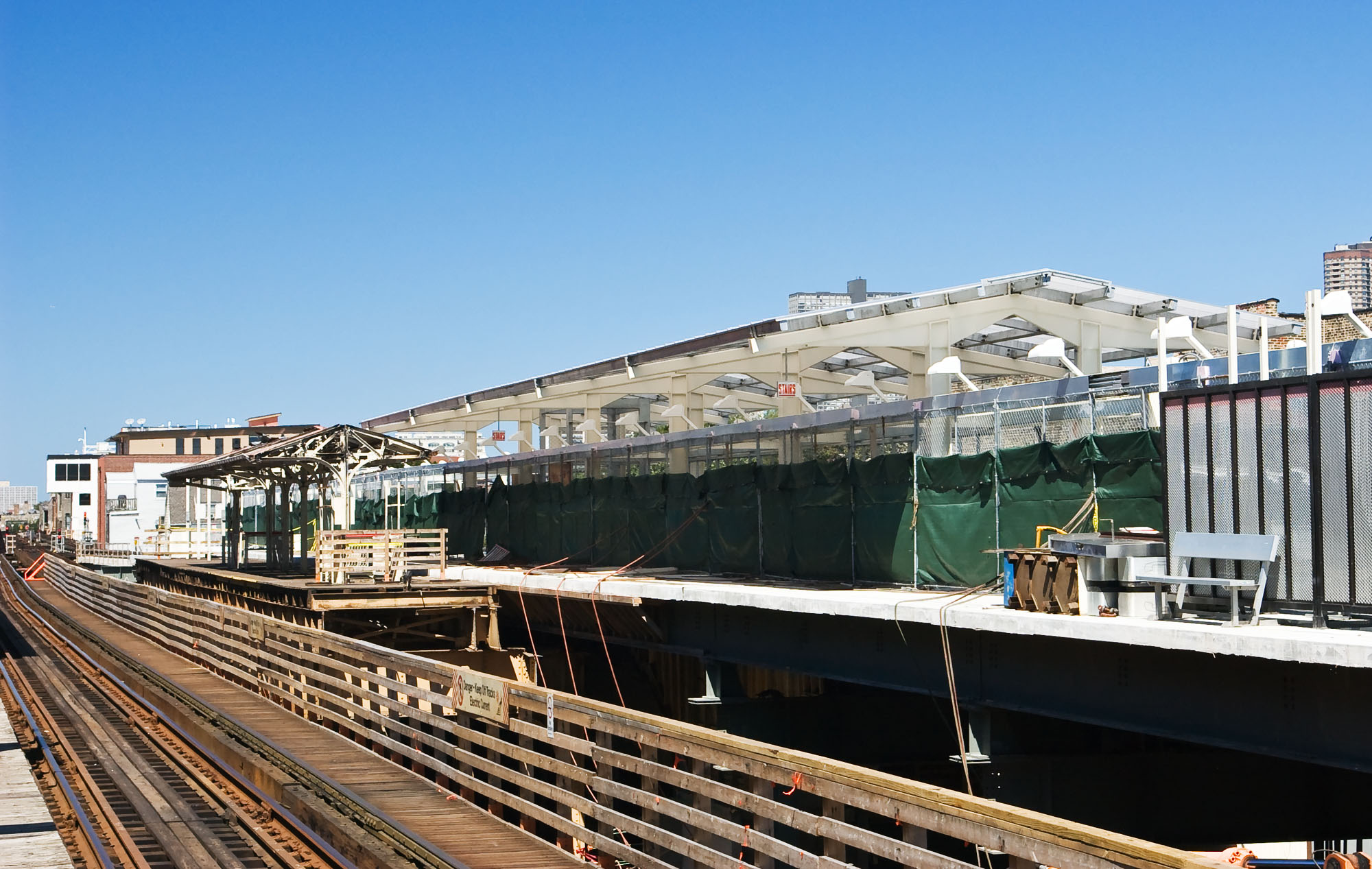 Old and new—the new northbound platform takes shape at Belmont station on the CTA red, brown and purple lines. The last part of the old northbound platform can be seen in the background.